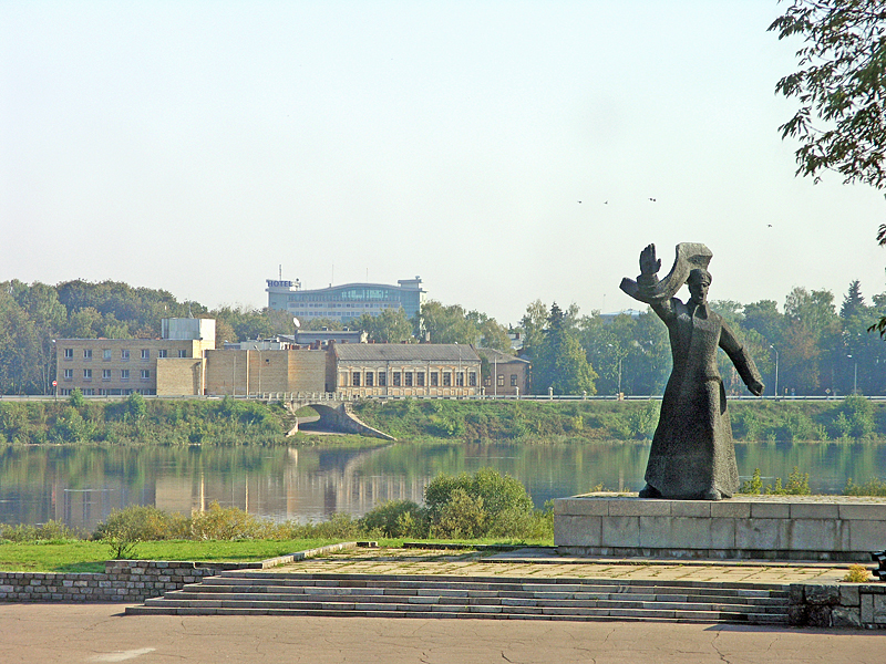 Памятник Защитникам города, Грива, Даугавпилс